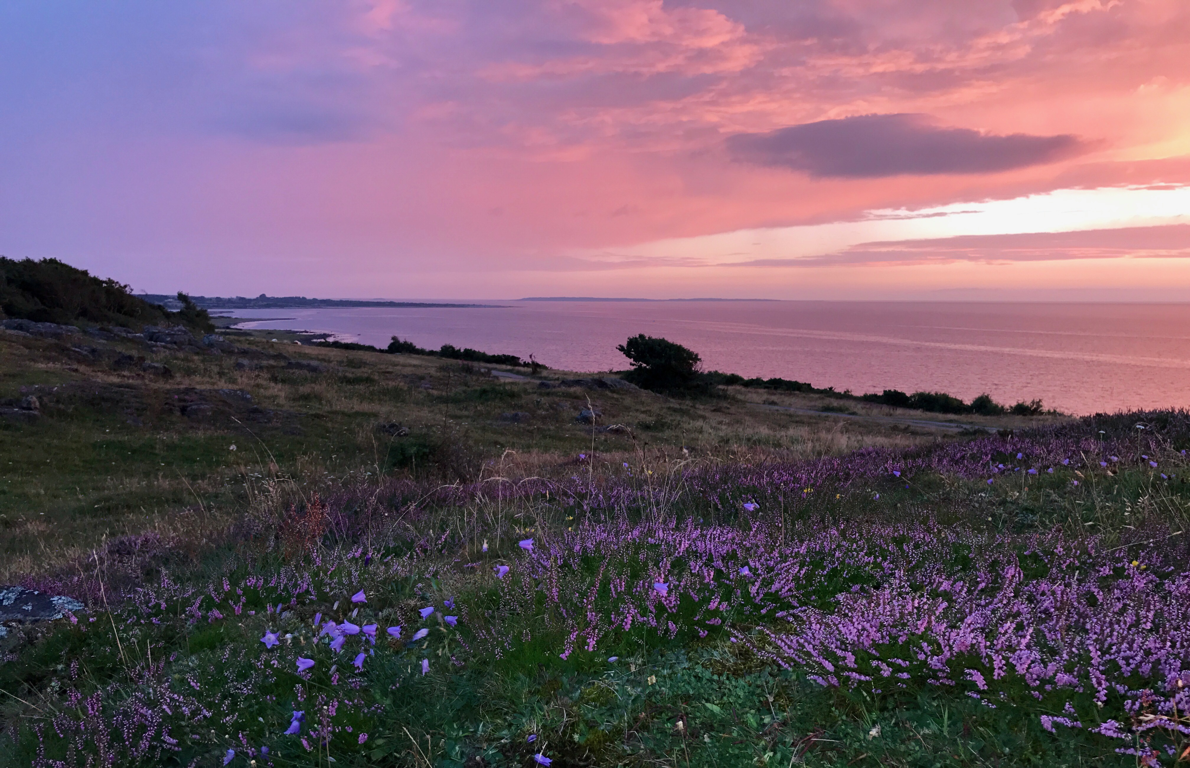 Late July Sunset looking at Hallands Väderö from Hovs Hallar